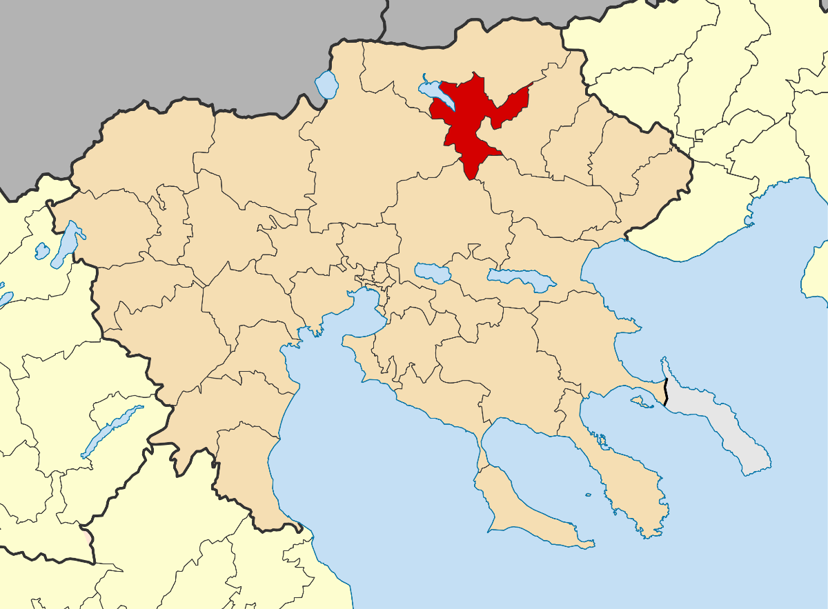 Locator map for Iraklia municipality in Greek region Central Macedonia (2011)